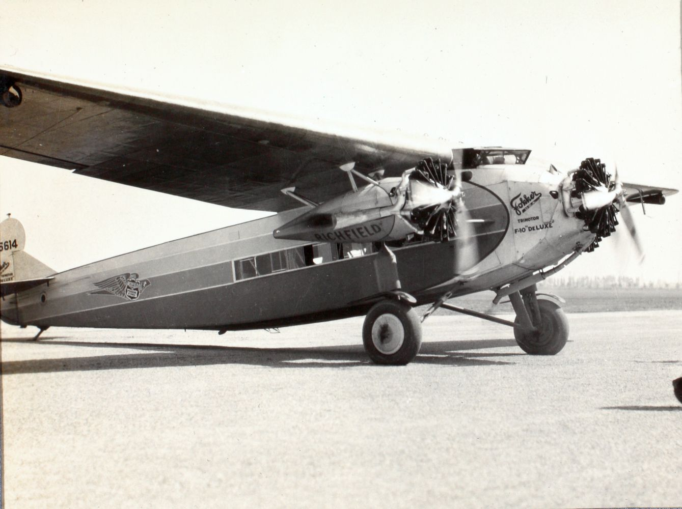 Richfield Oil Fokker F.10